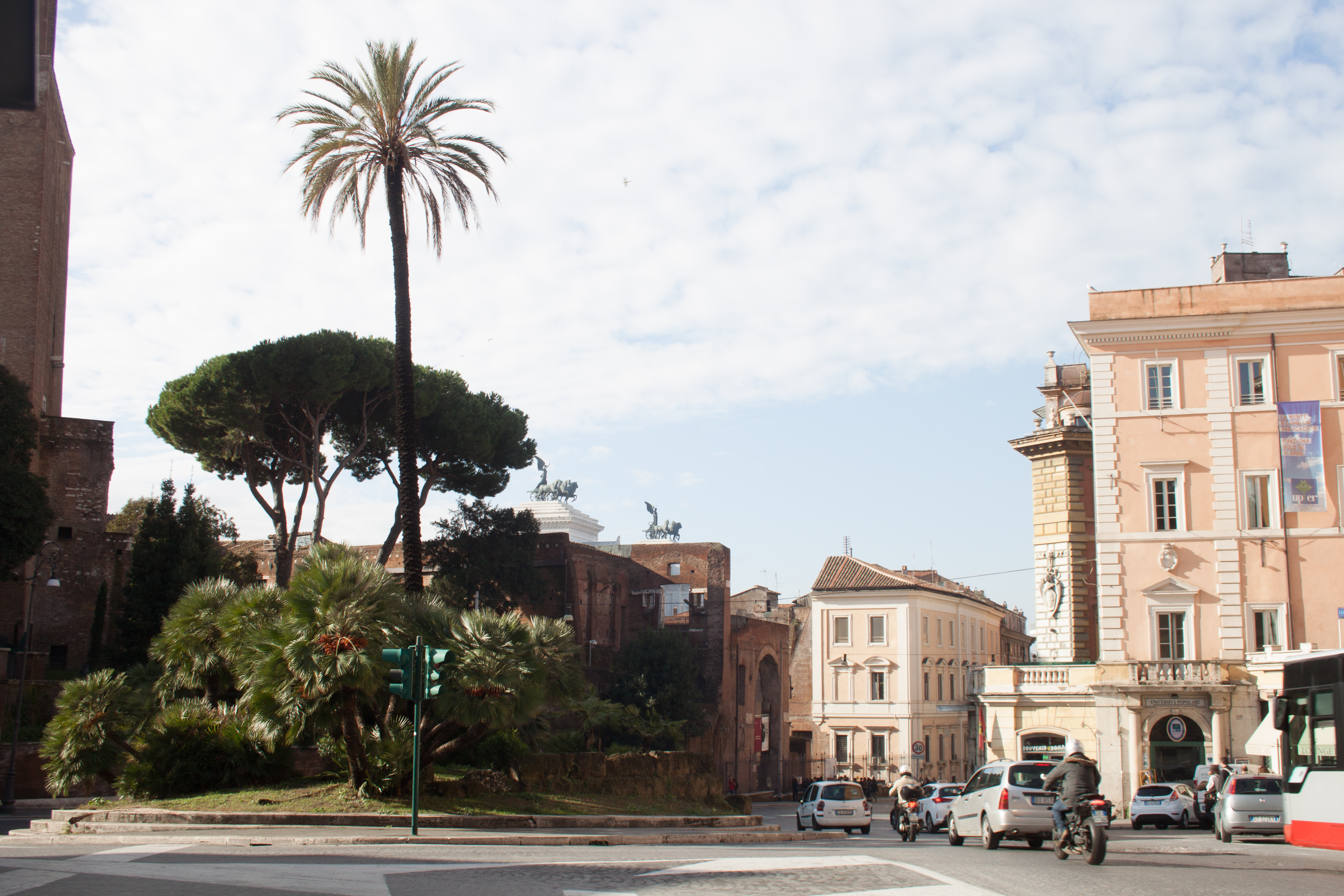 Largo Magnanapoli, entrance of the Museo dei Fori Imperiali in the background